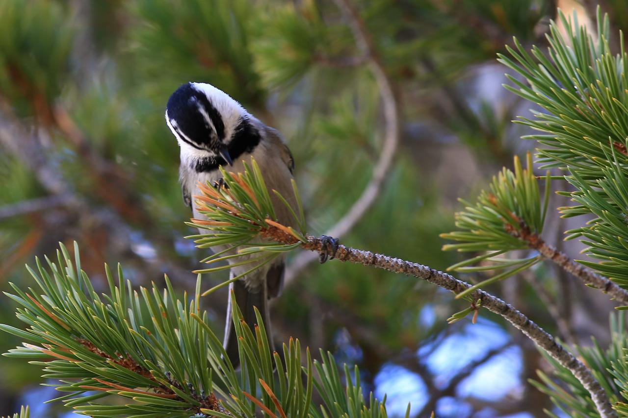 Mountain Chickadee Poecile gambeli, near May Lake, Yosemite, California.